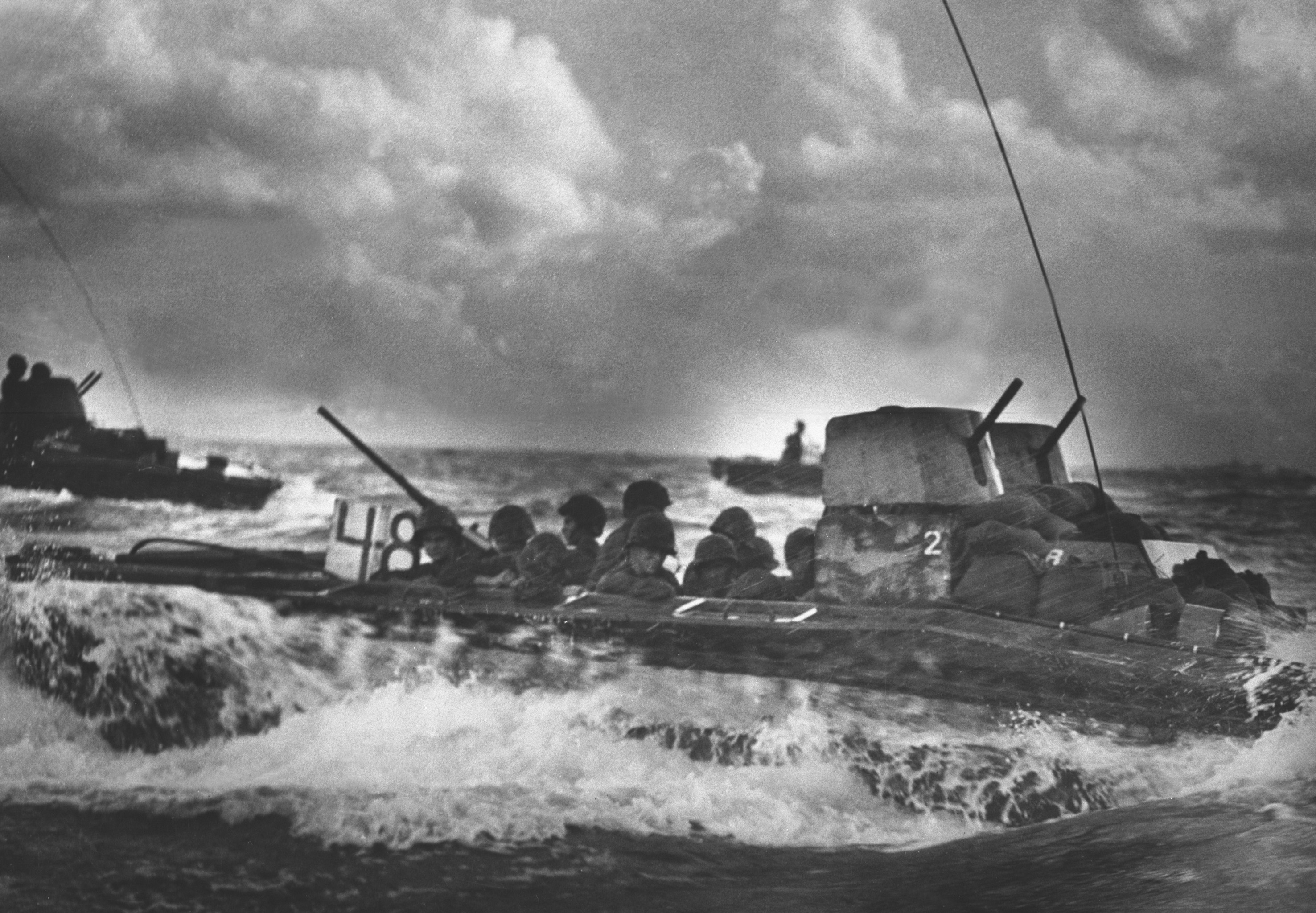 A Water Buffalo, loaded with Marines, churns through the sea bound for beaches of Tinian Island near Guam. July 1944.